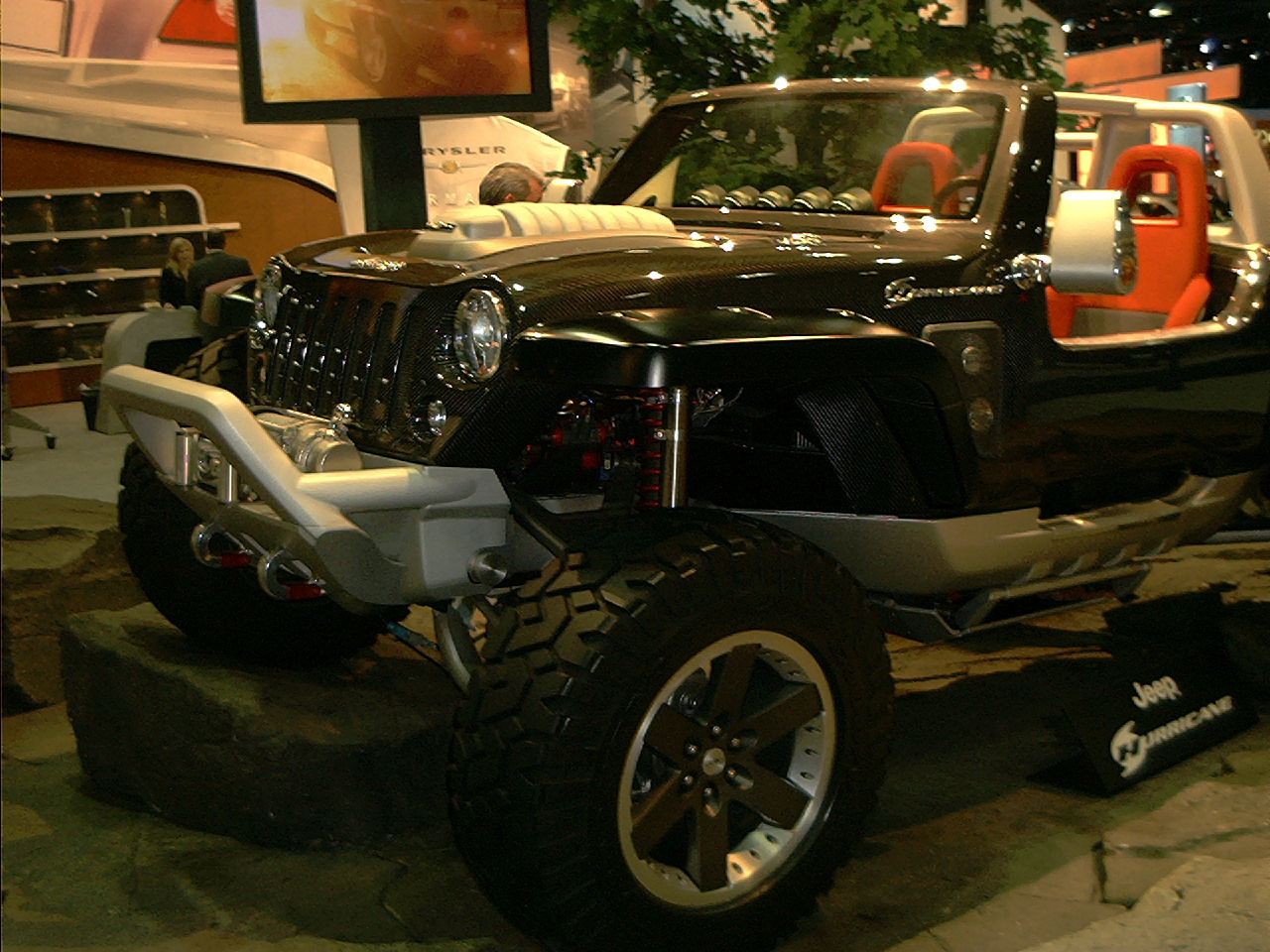 The Jeep Hurricane concept car at the 2006 Greater Los Angeles Auto Show. (Photo taken by Covinan)